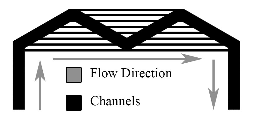 Schematic of a passive mixing element for a microfluidic device